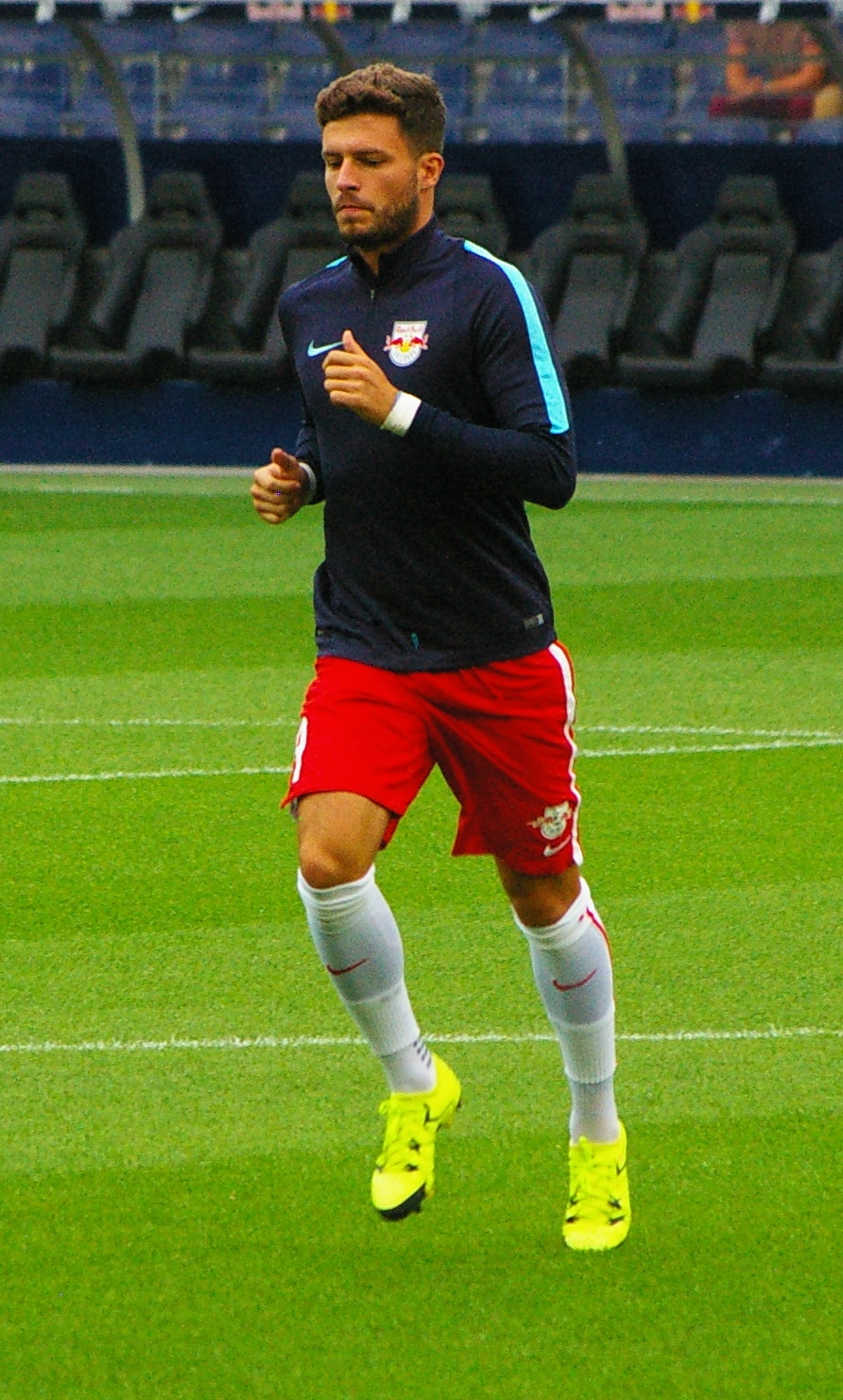 CL Qualifing match 3rd round 1st leg